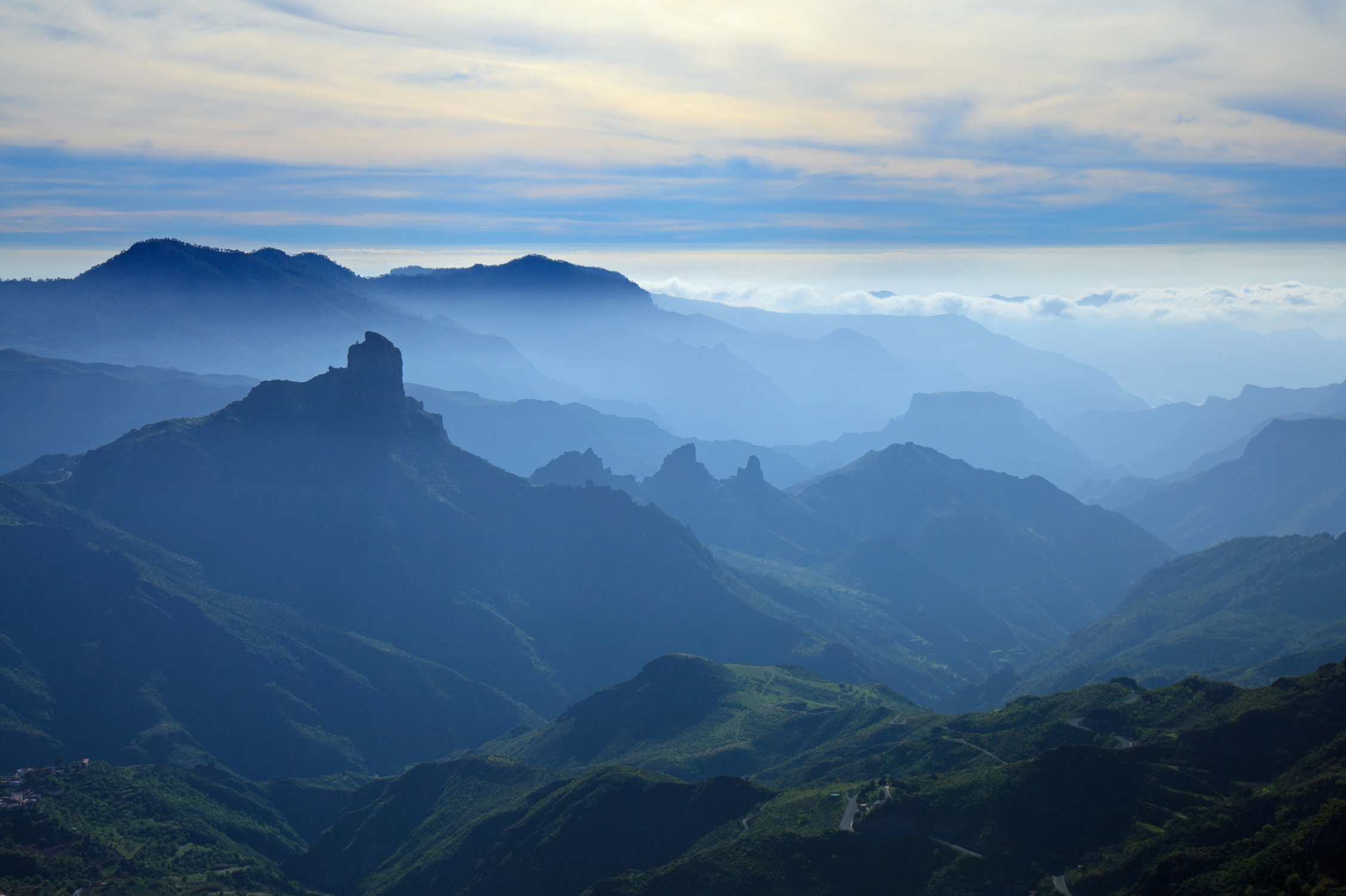 Mist is settling over Caldera de Tejeda, Gran Canaria, Spain. This is a photography of a Special Area of Conservation in Spain with the ID: ES7010039. Natura2000 entry, EEA entry